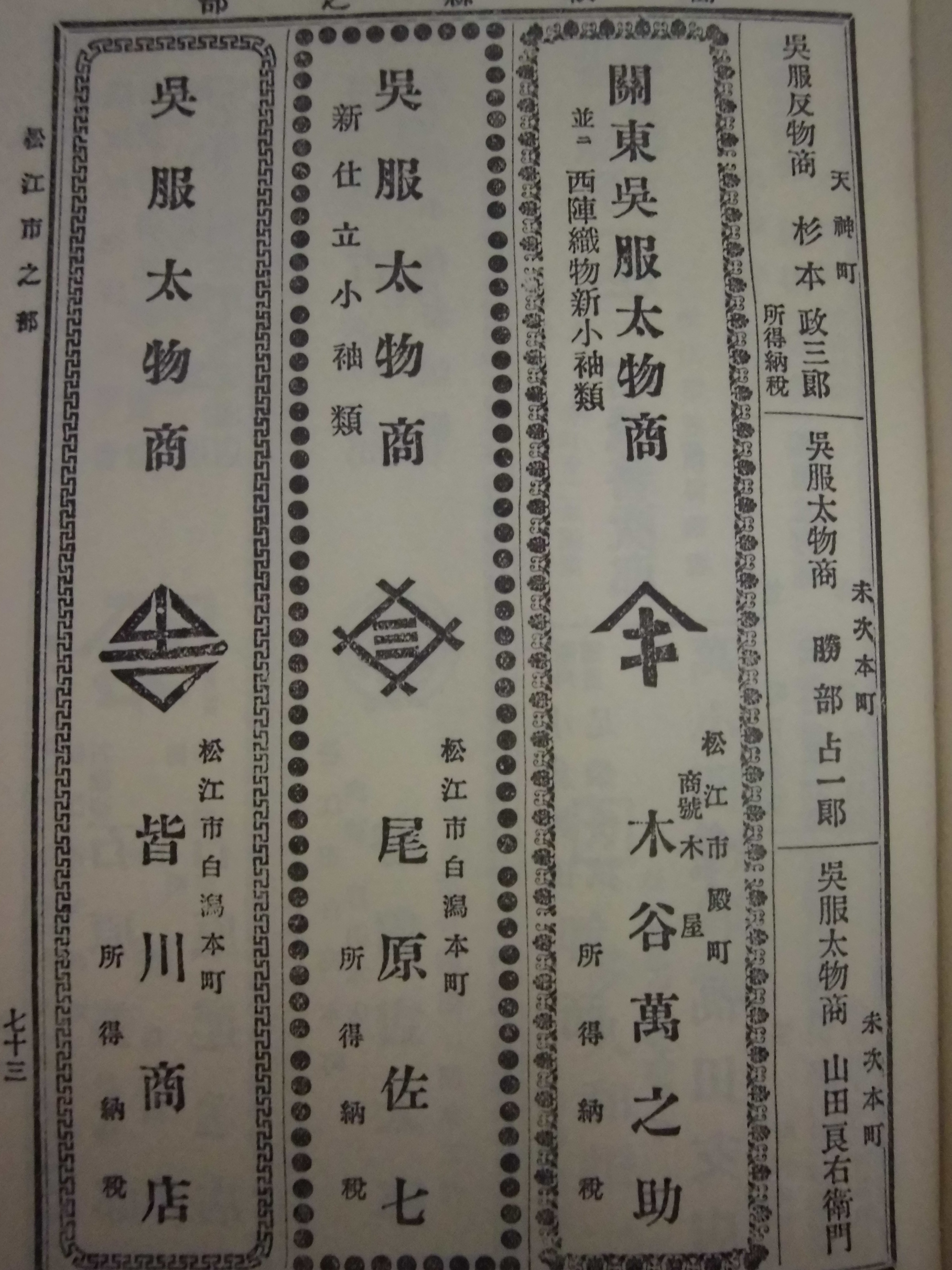 松江市の商店（Matsue Town Store）